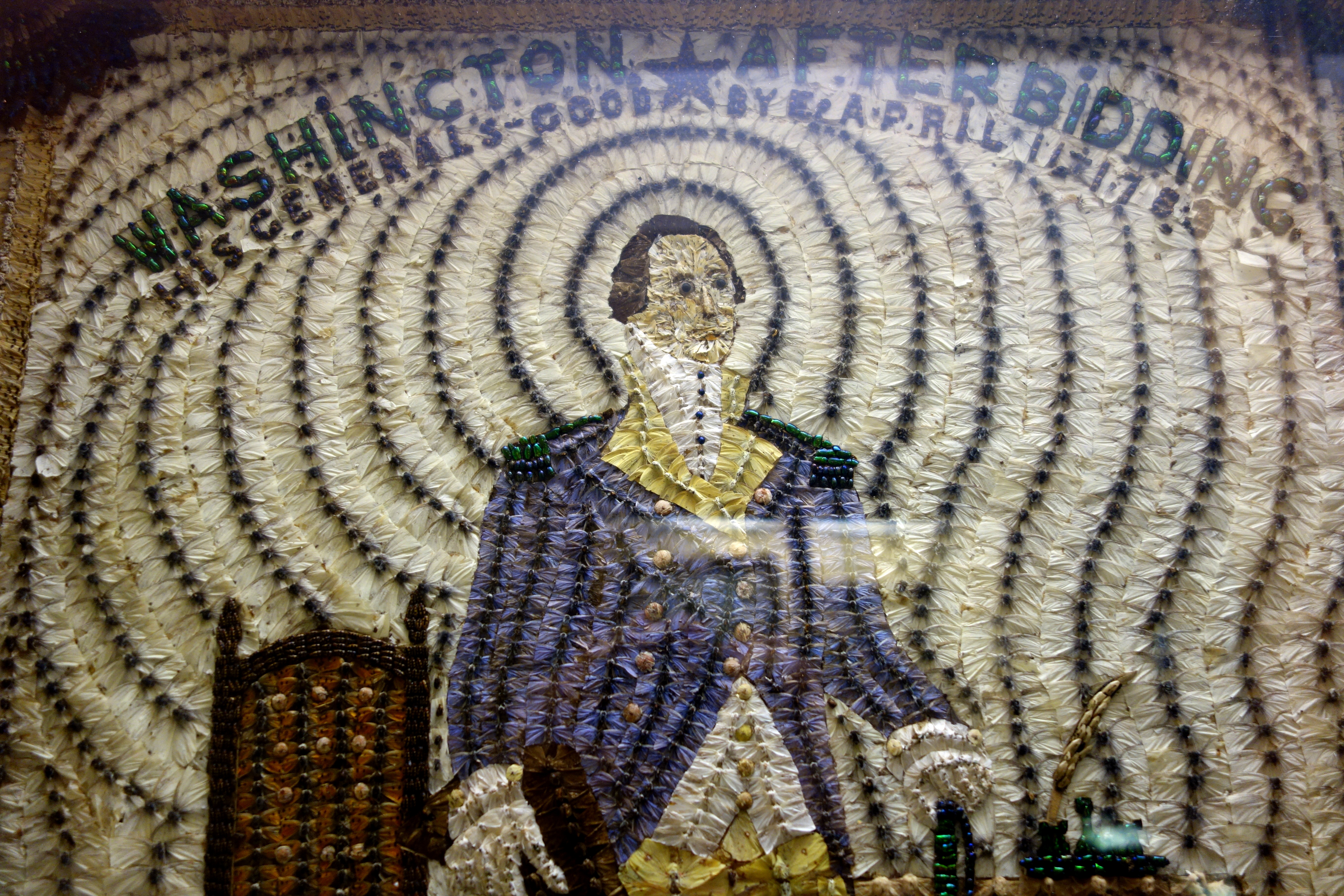 Artwork created by John Hampson from thousands of insects (butterfly wings, beetles, etc.). Exhibited in the Fairbanks Museum and Planetarium, St. Johnsbury, Vermont, USA. This artwork is in the public domain because the artist died more than 70 years ago.